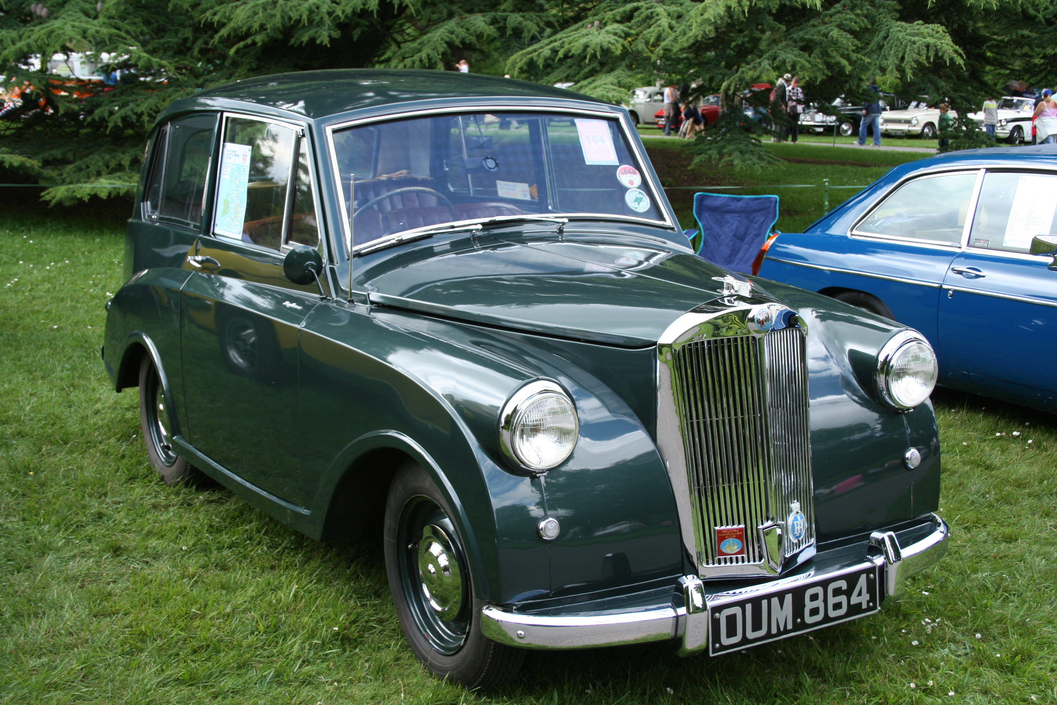 Triumph Mayflower shown at "Classic Cars for Father's Day" at Brodsworth Hall, near Doncaster (DVLA) first registered 12 November 1951, 1247 cc